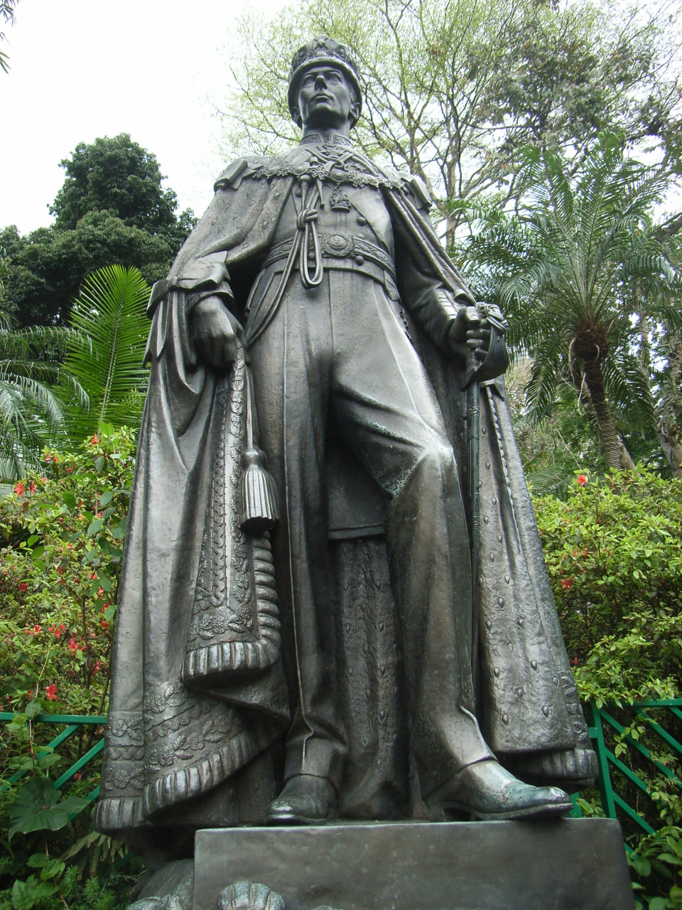 香港動植物公園 Hong Kong Zoological and Botanical Gardens NBG626